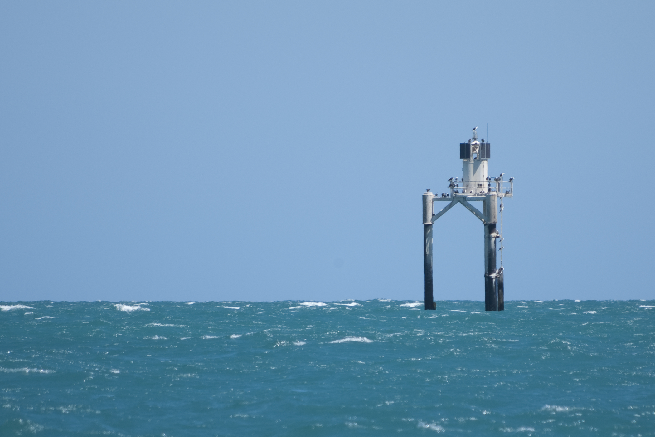 A nautical beacon marking the Orontes Bank near Port Vincent in South Australia.